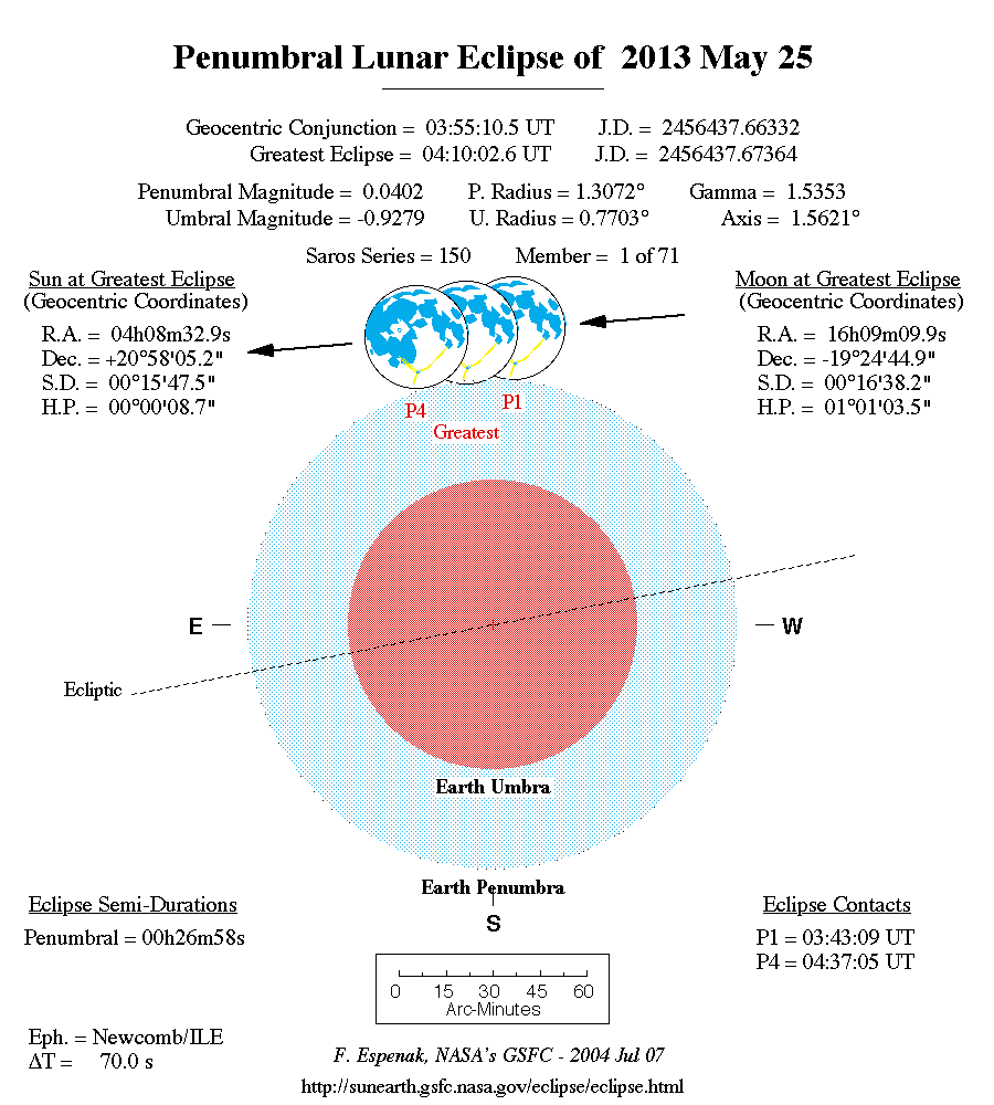 Sketch of the 2013-05-25 lunar eclipse.